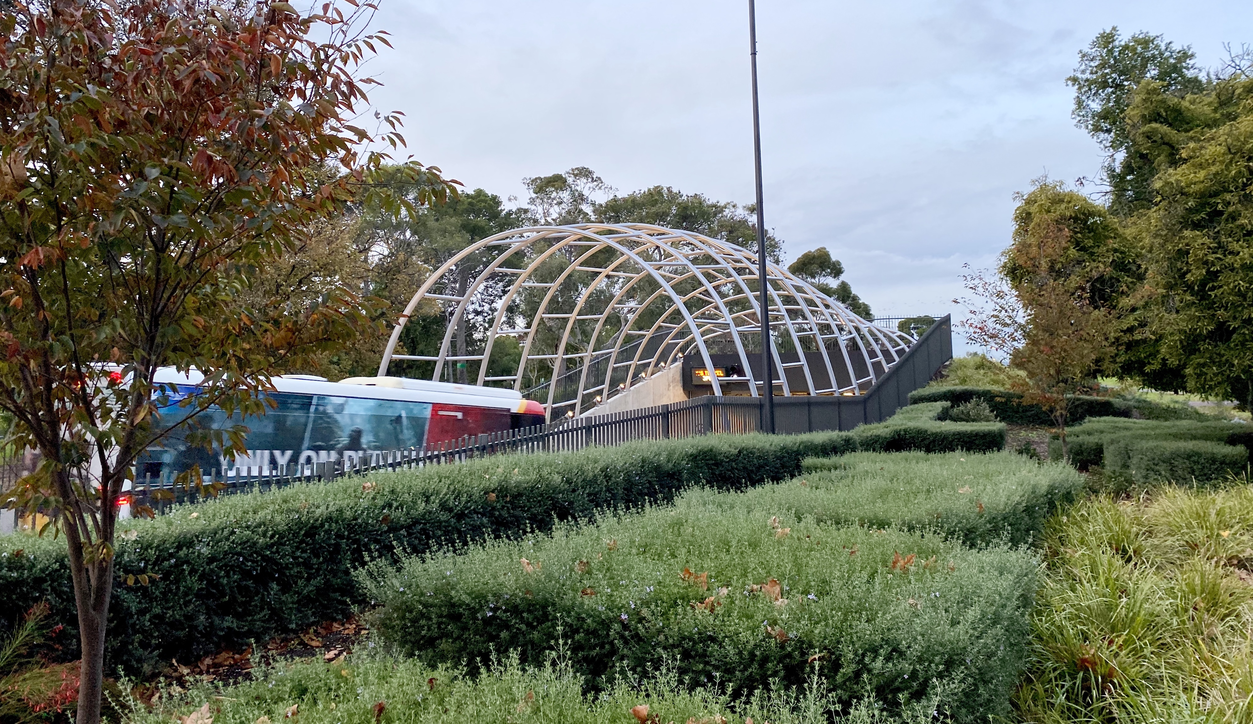 Cropped version of .